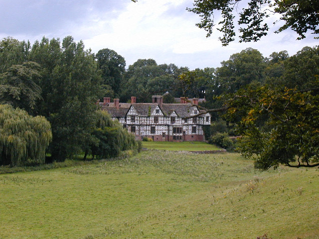 Pitchford Hall. 16th century house - Pevsner considers it the most splendid black and white in Shropshire. Grade 1 listed building - also has a grade 2 orangery. QE2, Victoria and Prince Rupert stayed there.